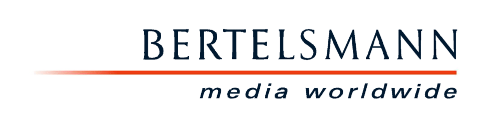 Logo of Bertelsmann AG.